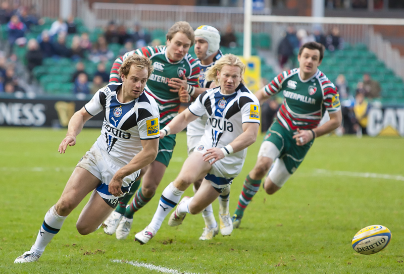 Nick Abendanon and Tom Biggs of Bath turn to recover a kick through from Leicester's Matthew Tait. Leicester Tigers vs Bath, Aviva Premiership, Welford Road, Saturday 1st December 2012